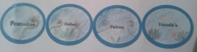 A family tree of ancient Hawaiian Chiefs of the island called Maui: Paumakua was the father of Haho, father of Palena, father of Hanala'a.